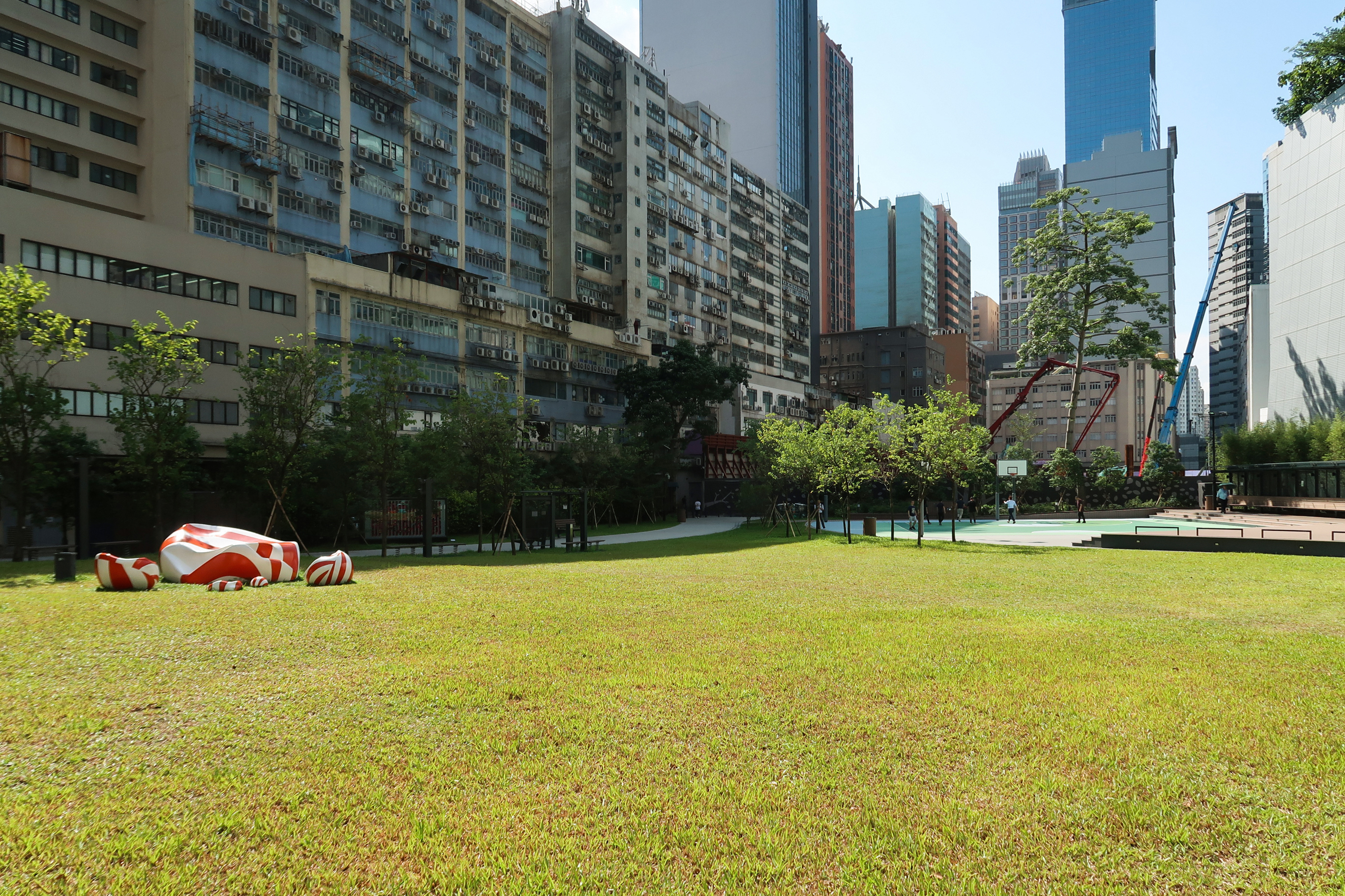 InPark Lawn area